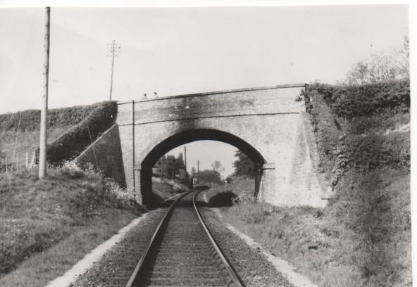 This picture shows the A483 road bridge over the railwayline from Arddleen in the direction of Pool Quay. Photo taken in 1949.